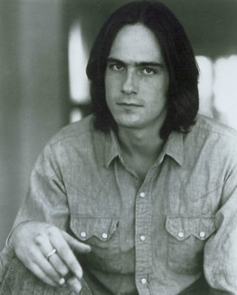 Promotional photo of James Taylor.